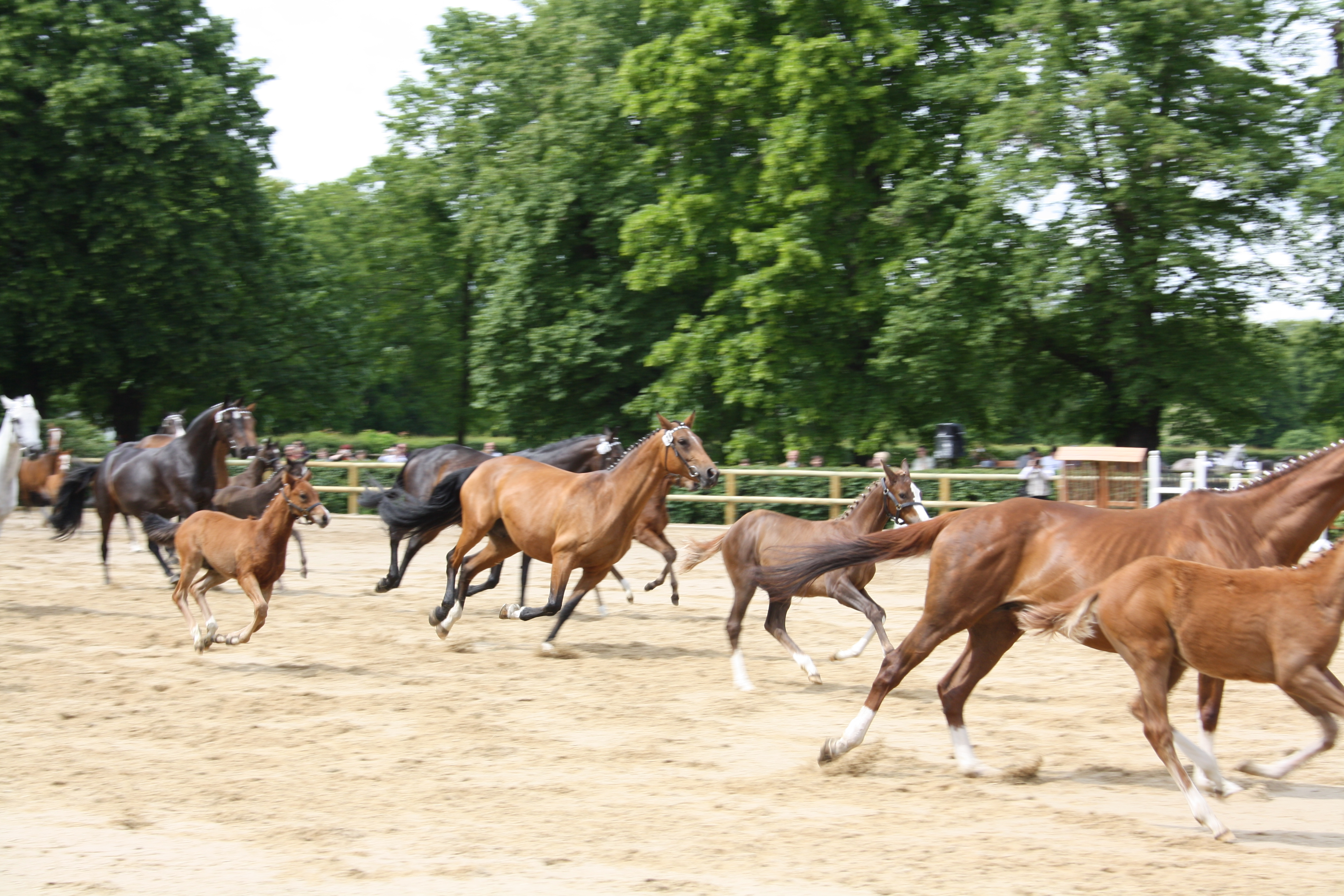 horses Graditz